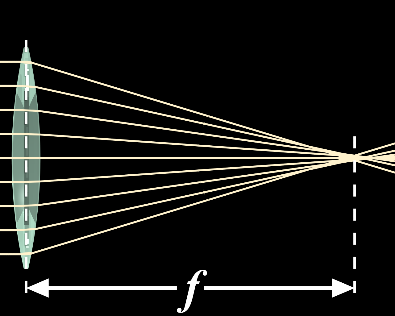 Demonstrating the concept of focal length for a convex, spherical lens: Light beams entering from the left gets refracted twice before focusing at approximately distance f to the right of the lens.